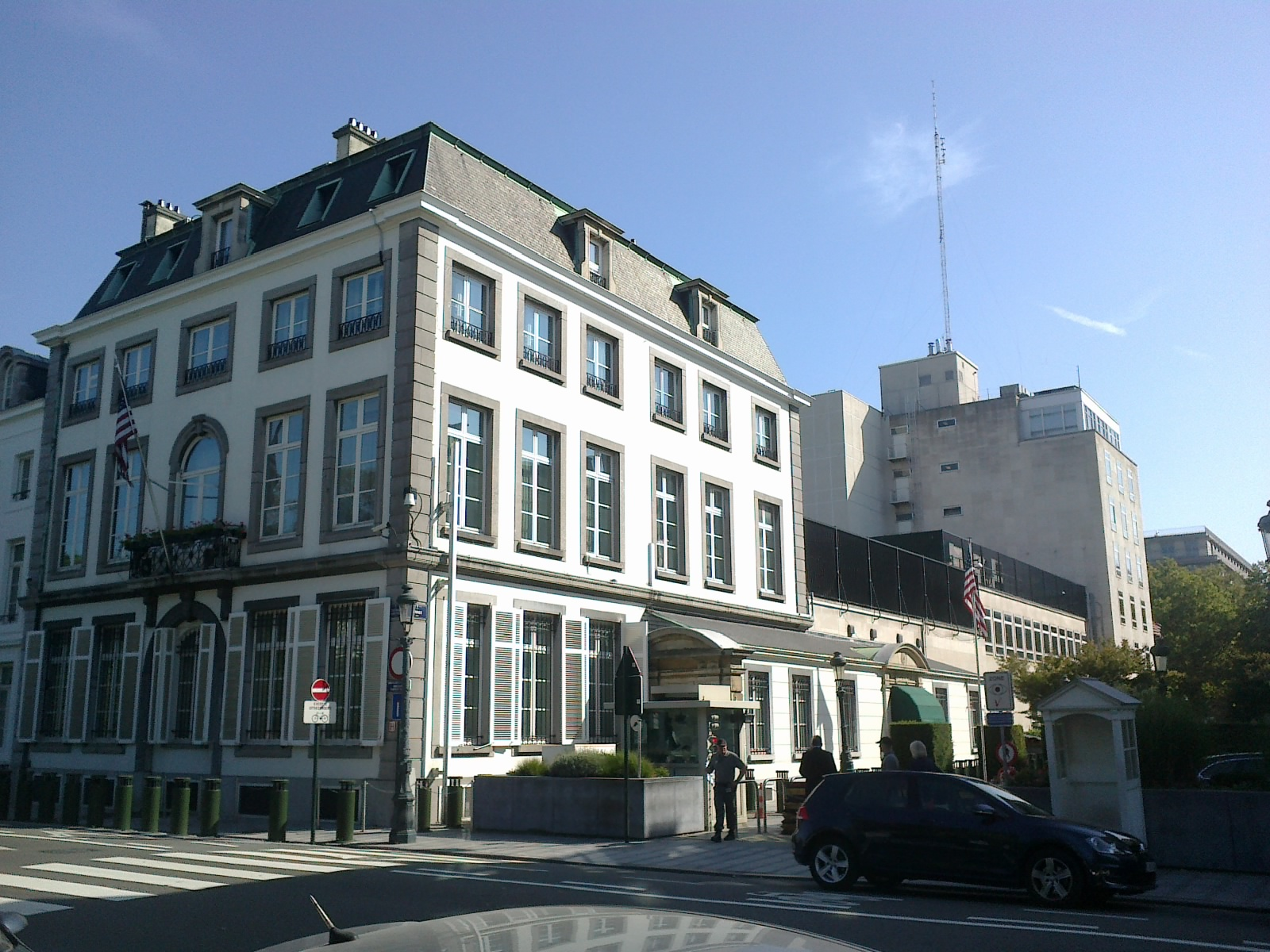 American embassy buildings and the inaccessible Zinner Street, Brussels.